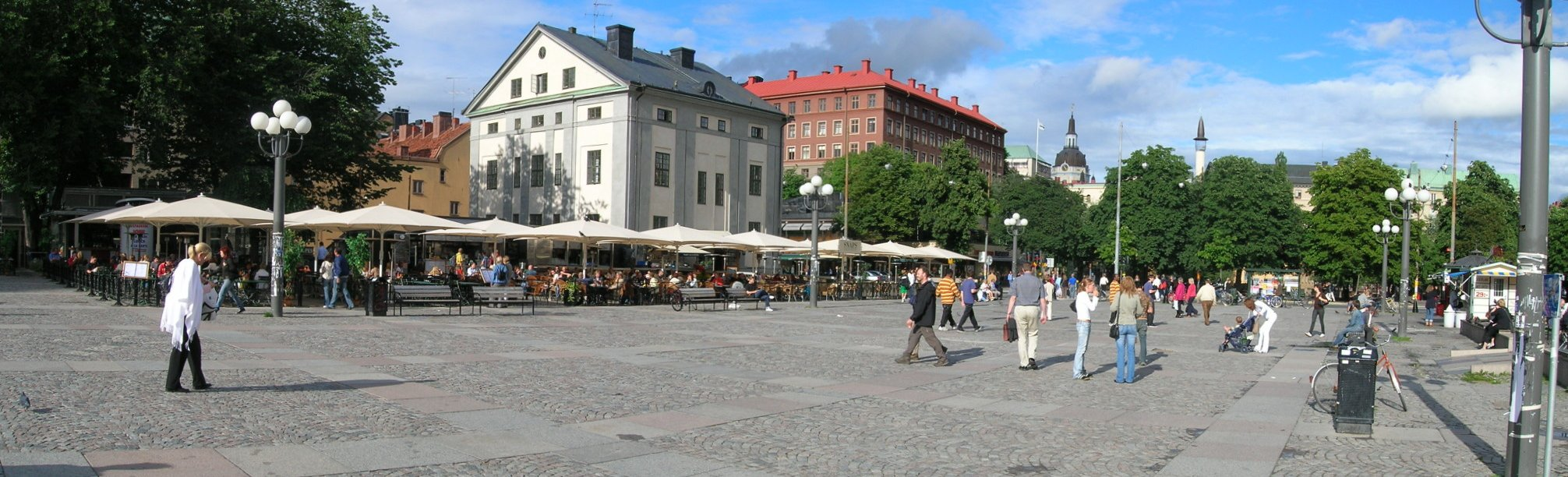 Medborgarplatsen in Stockholm is a popular meeting place for the citizens of Stockholm. There are a number of bars and clubs around the square.